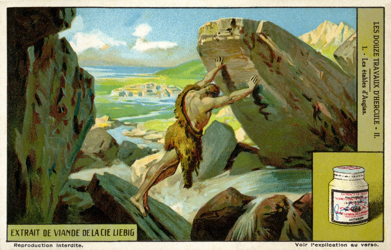 Hercules cleans the Augean stables by redirecting the river. Twelve labours of Hercules (Heracles). Liebig collectors' card, 1939 Contributor: Lebrecht Music & Arts / Alamy Stock Photo Image ID: JF8XFK File size: 50 MB (4.6 MB Compressed download) Dimensions: 5220 x 3347 px | 44.2 x 28.3 cm | 17.4 x 11.2 inches | 300dpi Releases: Model - no | Property - no Do I need a release? More information: This image could have imperfections as it’s either historical or reportage. Photographer: Lebrecht Date taken: 15 August 2016